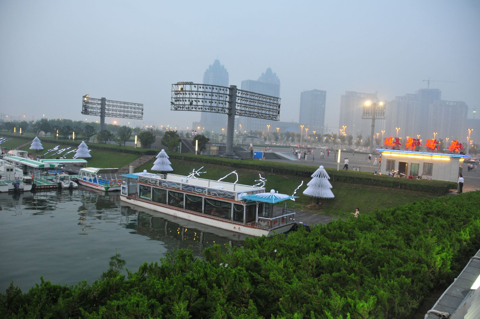 zhengzhou view